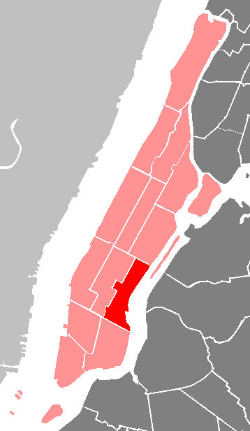 Category:Maps of New York City: New York City - Manhattan - Community Board 6.PNG